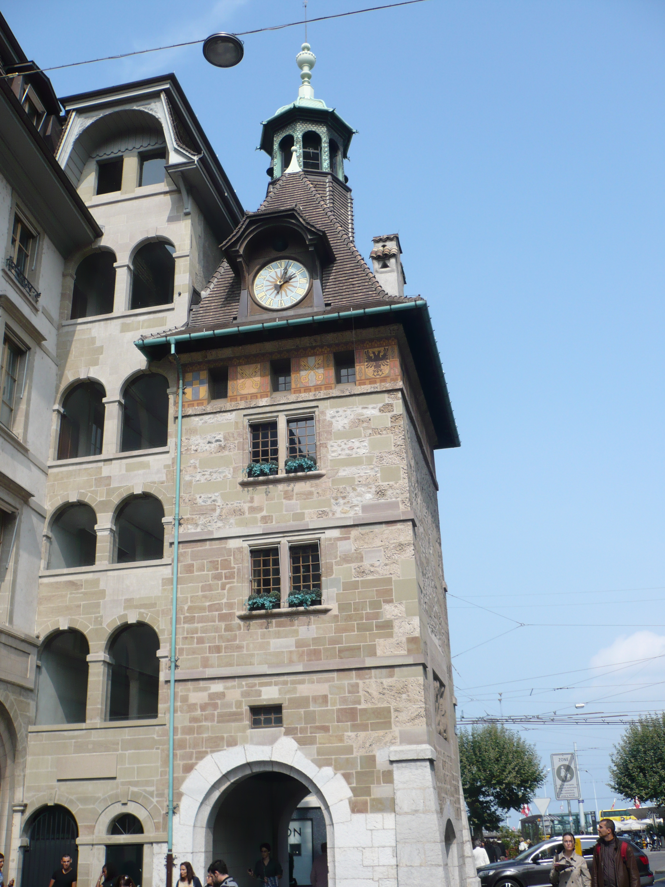 Tour du Molard Geneva